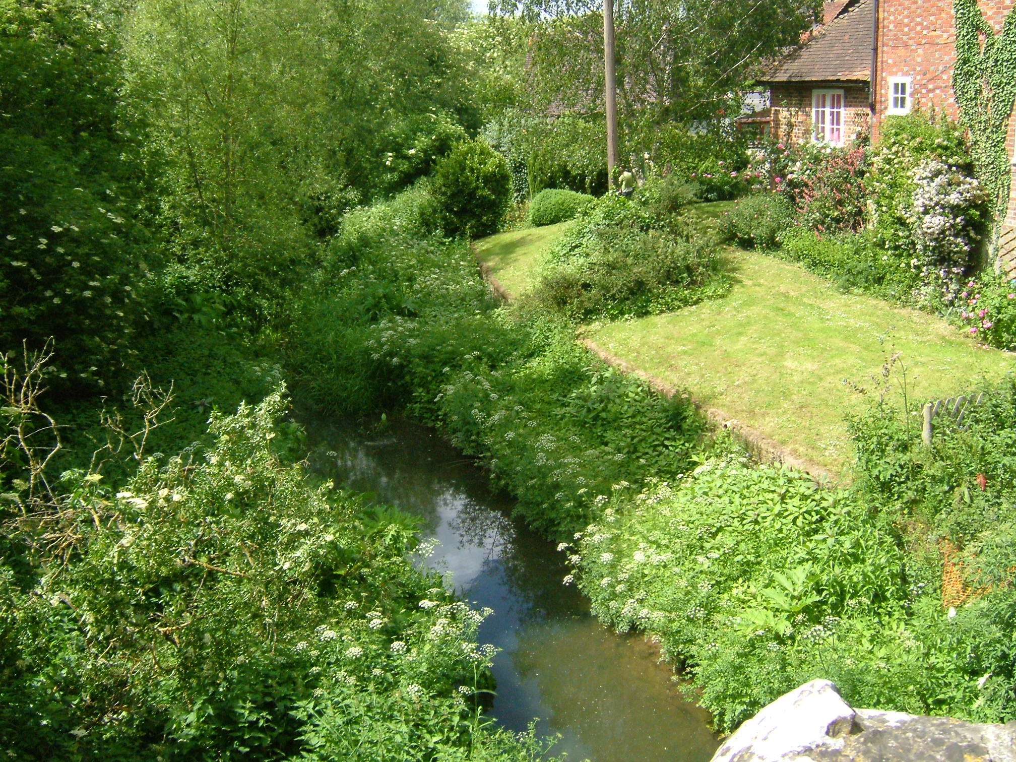 Riverside dwellings on the River Beult at Yalding (The Taft), just before it joins the Medway. At Yalding there is an automatic sluice where the river drops from +11.2m to +7.41m above mean sea level (which it here). The navigation bears left through the Hampstead Lane Canal, and the Hampstead Lock, the main stream drops over the weir and sluice and is joined by the River Teise (Lesser Teise) and both pass under Twyford Bridge. The river then flows in a loop towards Yalding, where it is joined by the River Beult which has been joined by the River Teise (the other bit!) and passes under Town Bridge. Town bridge lies 16.5 km from Allington. Town bridge is the longest mediaeval bridge in Kent.